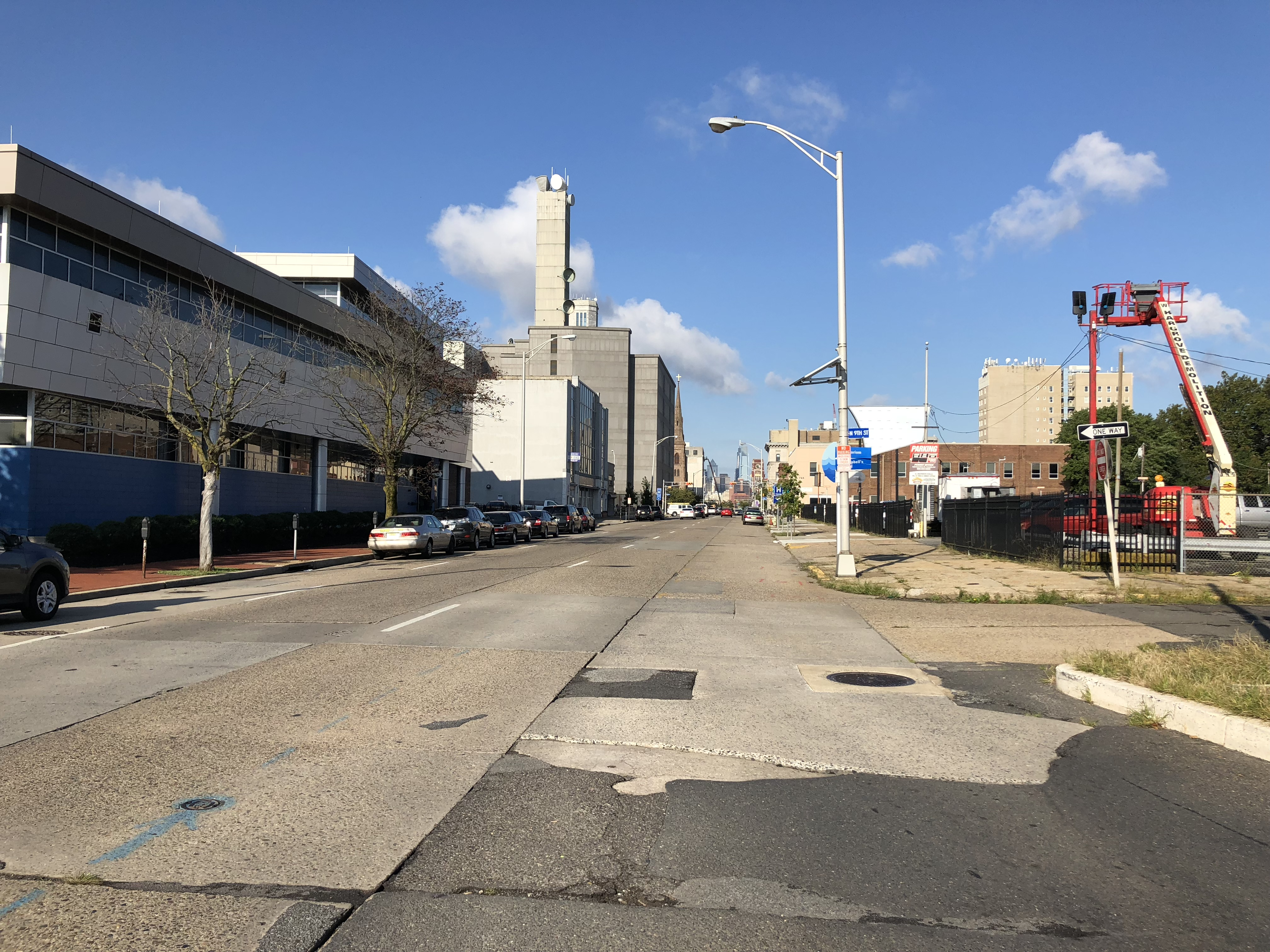 View west along Camden County Route 537 Spur (Market Street) at 9th Street in Camden, Camden County, New Jersey